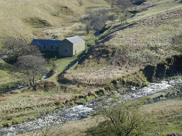 Old farm near River Ashop on Derbyshire 4 kn from Edale in High Peak in the parish of Hope Woodlands